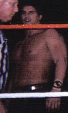 Bart Gunn at a WWF event in 1996